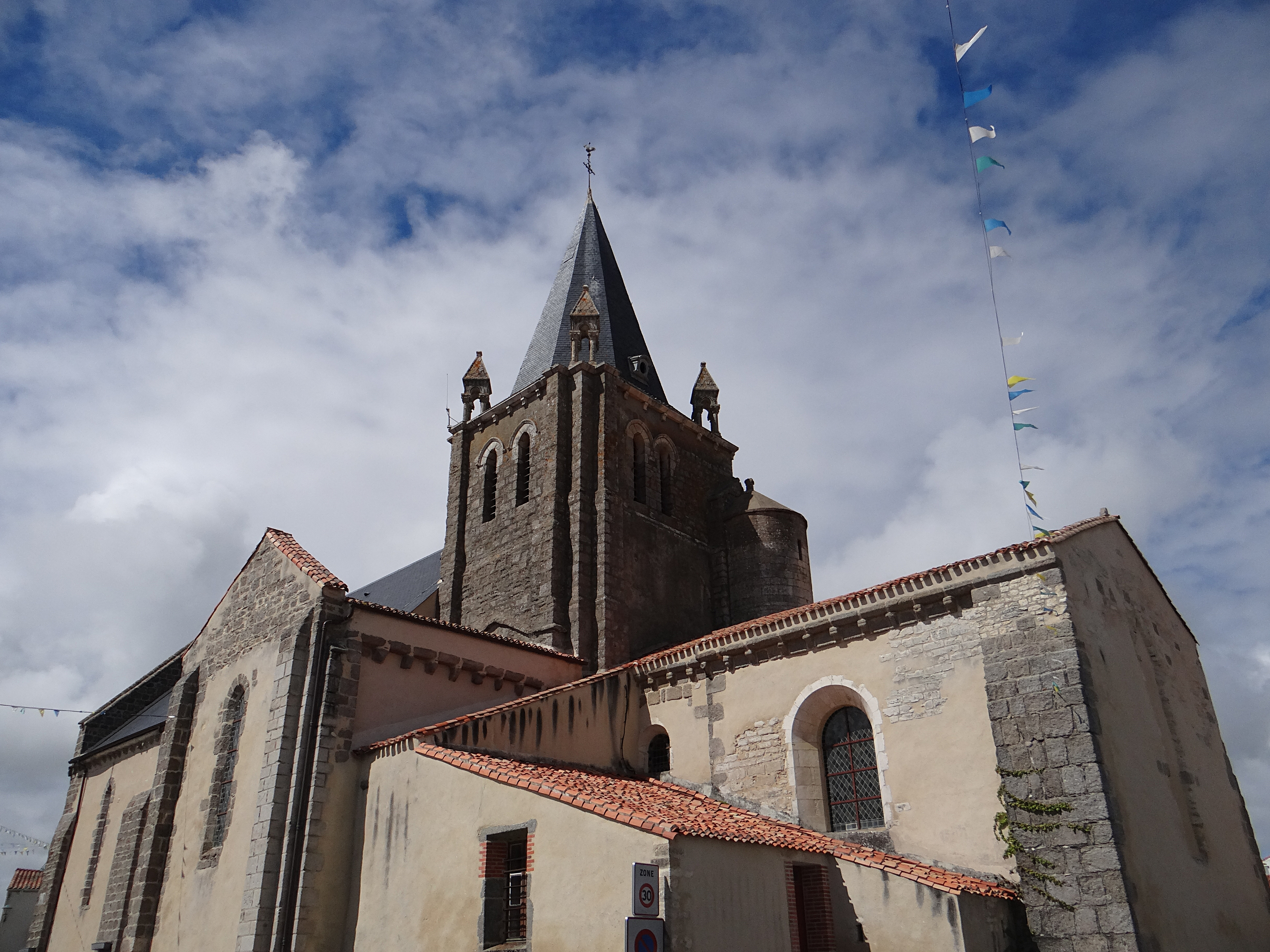 Church of Our Lady of the Assumption, Longeville-sur-Mer, Vendee, France.